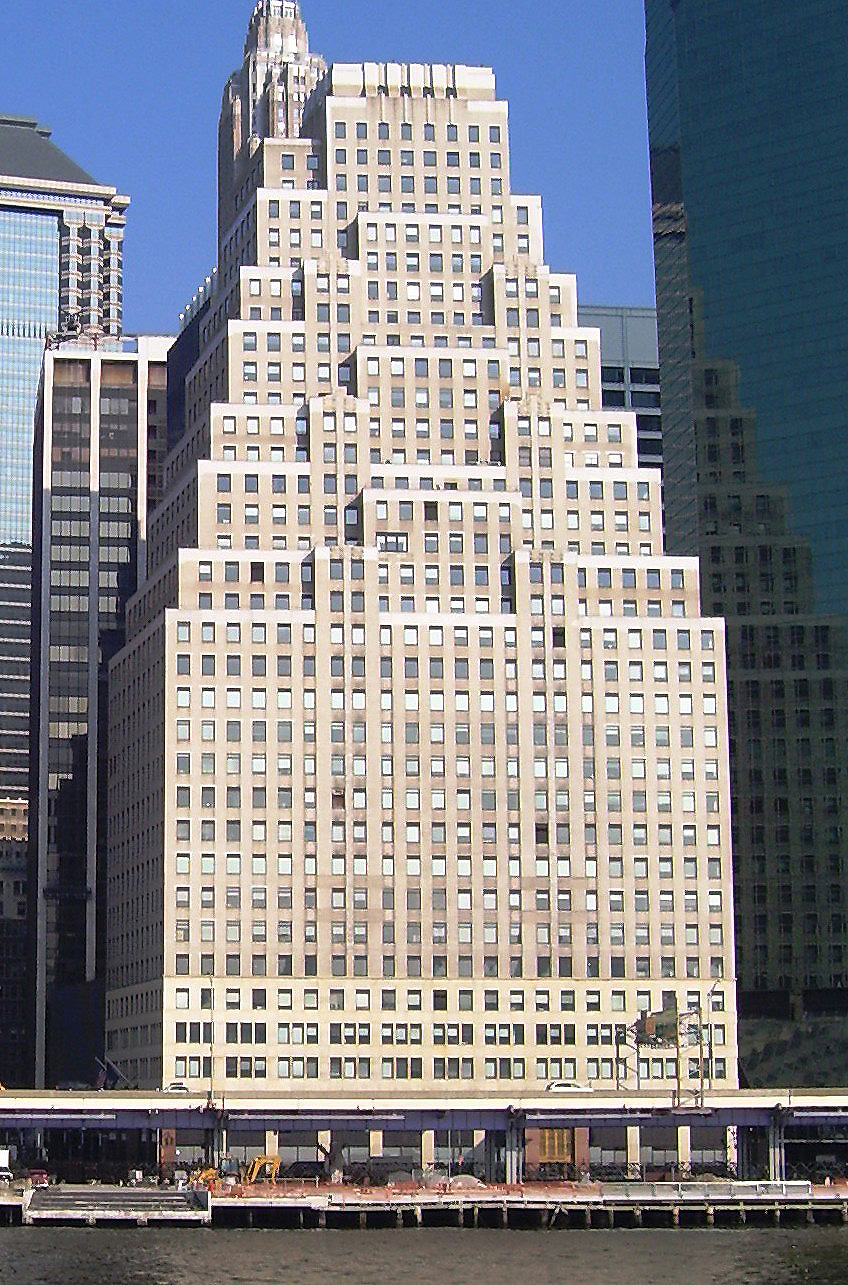 120 Wall Street in the Financial District of Downtown Manhattan, New York City, as seen from the East River.